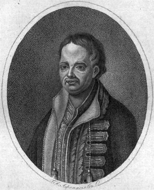 Ivan Mazepa